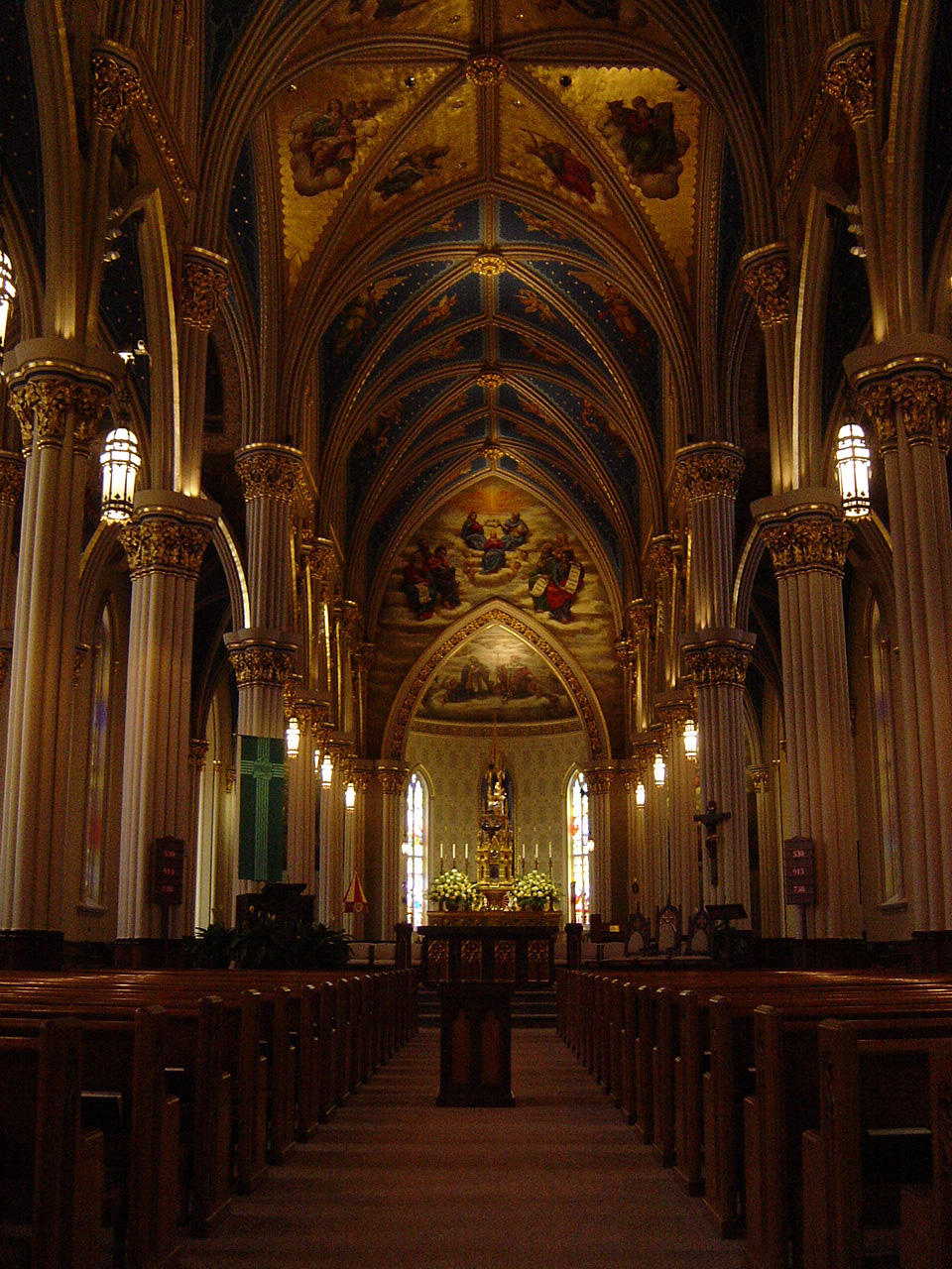 Interior of the Basilica of the Sacred Heart, University of Notre Dame, South Bend, Indiana.